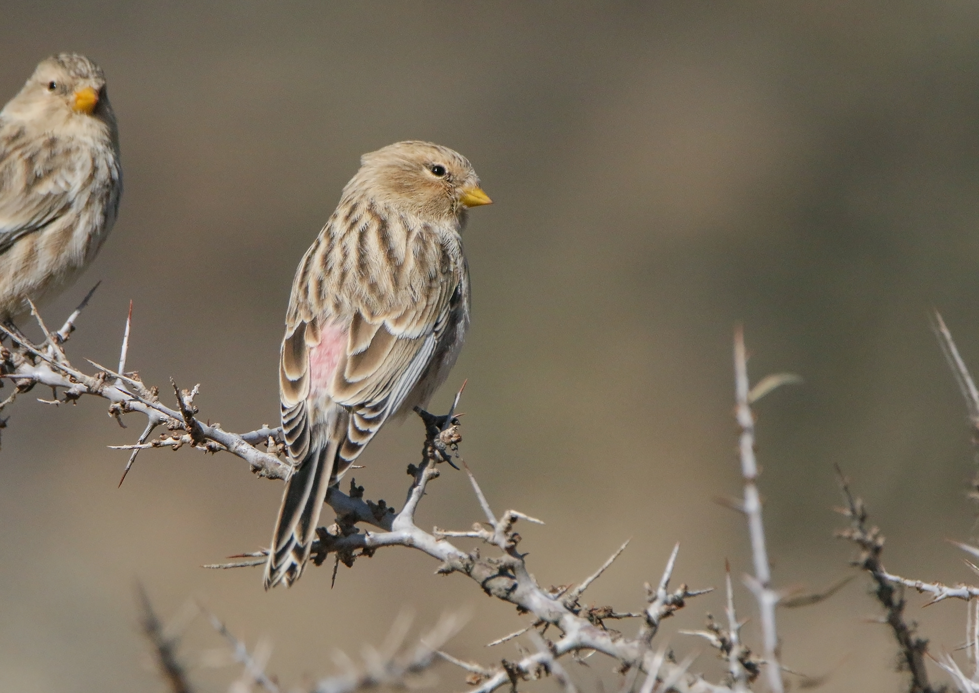 Twite (Carduelis flavirostris) captured at Borit, Gojal, Gilgit-Baltistan, Pakistan with Canon EOS 7D Mark II